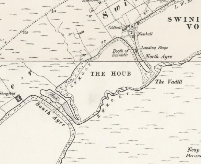 Section of 1902 1:10,000 scale map of the Ayres of Swinister - two shingle bars that enclose a lagoon (houb) From National Library of Scotland website - Ordnance Survey